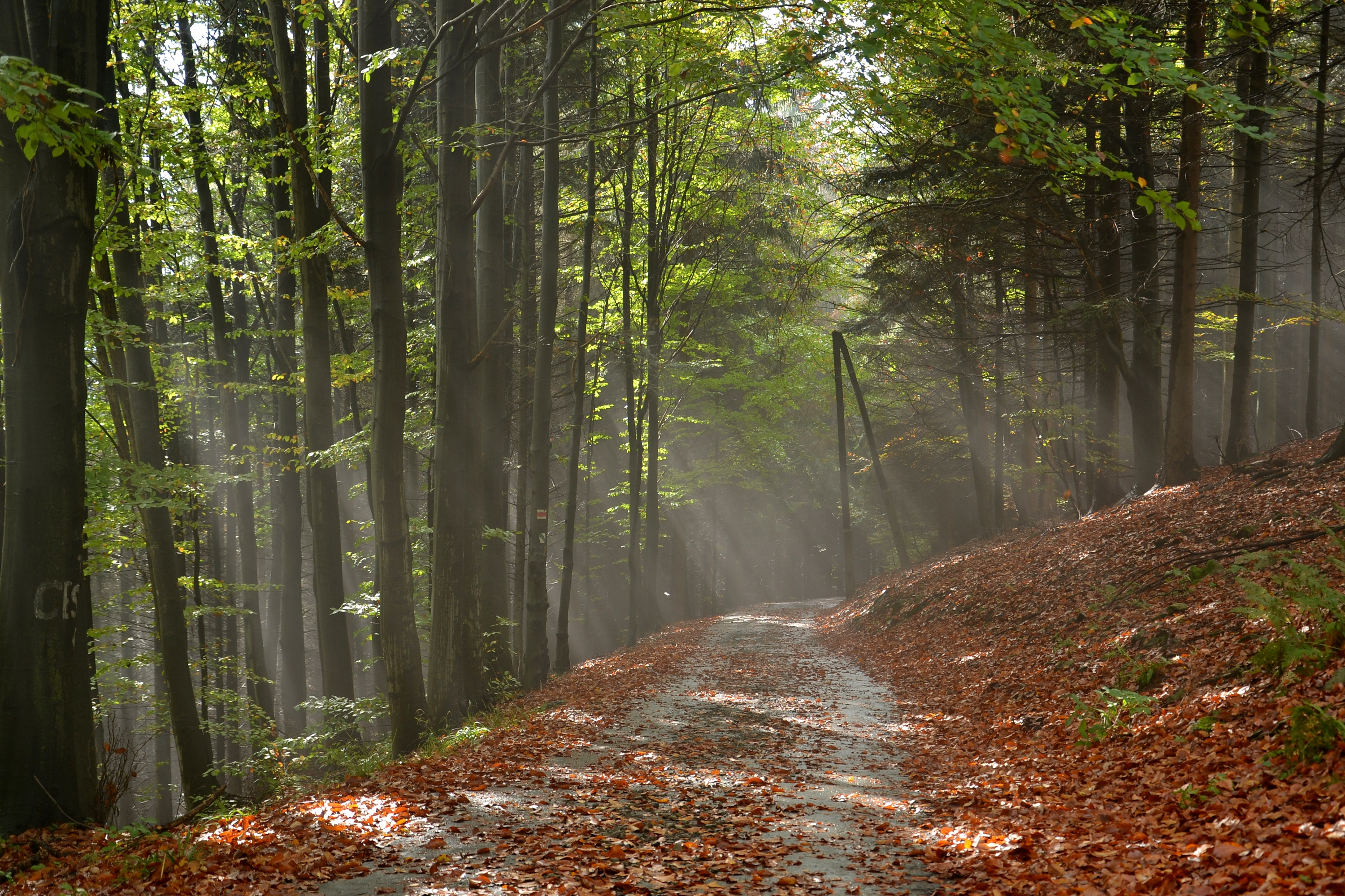 Hiking trail Knight's Path over the Czantoria Wielka